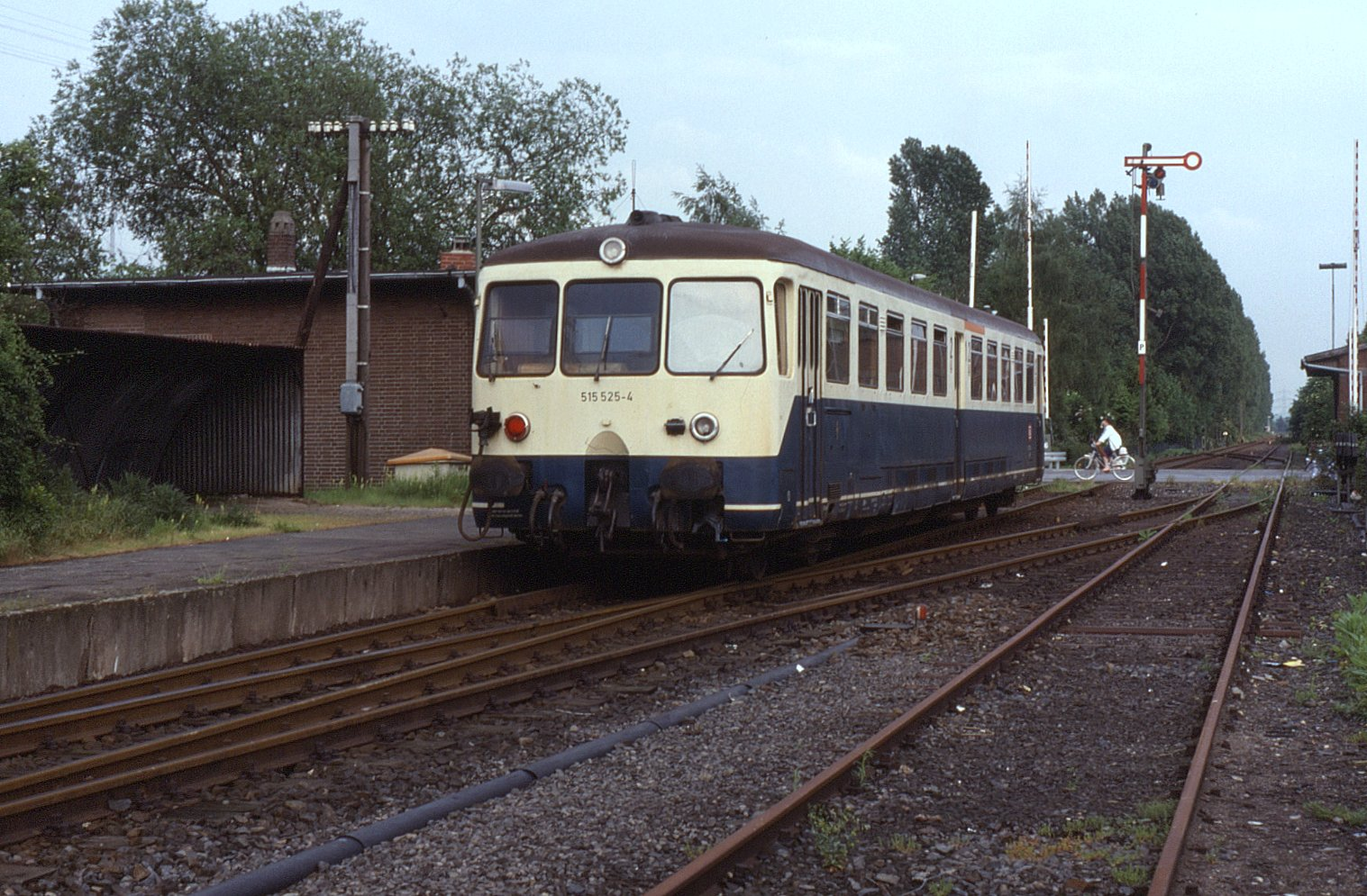 The 6kms long branch from Neuss Hbf to Kaarst was visited on the evening of 10 May 1990. Worked by a single car Battery Electric Unit. Seen here is 515.525 forms train 8757, 19:12 Kaartst to Neuss Hbf. The branch still survives, in fact passenger trains continue on a little further to Kaarster See having been extended the 1km or so in 1999 along which was freight only. Current operator is Regiobahn GmbH.